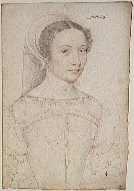 Portrait of Isabelle de Hauteville, Mme. la Cardinale, wife of former cardinal Odet de Coligny